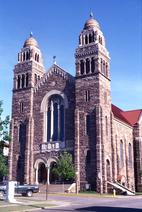 photo by Einar Einarsson Kvaran aka Carptrash 10:36, 12 February 2007 (UTC) sculpture by Corrado Parducci